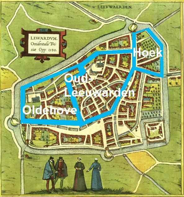 Bewerking van tekening van Jacob van Deventer van Leeuwarden naar een model van J.R.G. Schuur uit 1975.